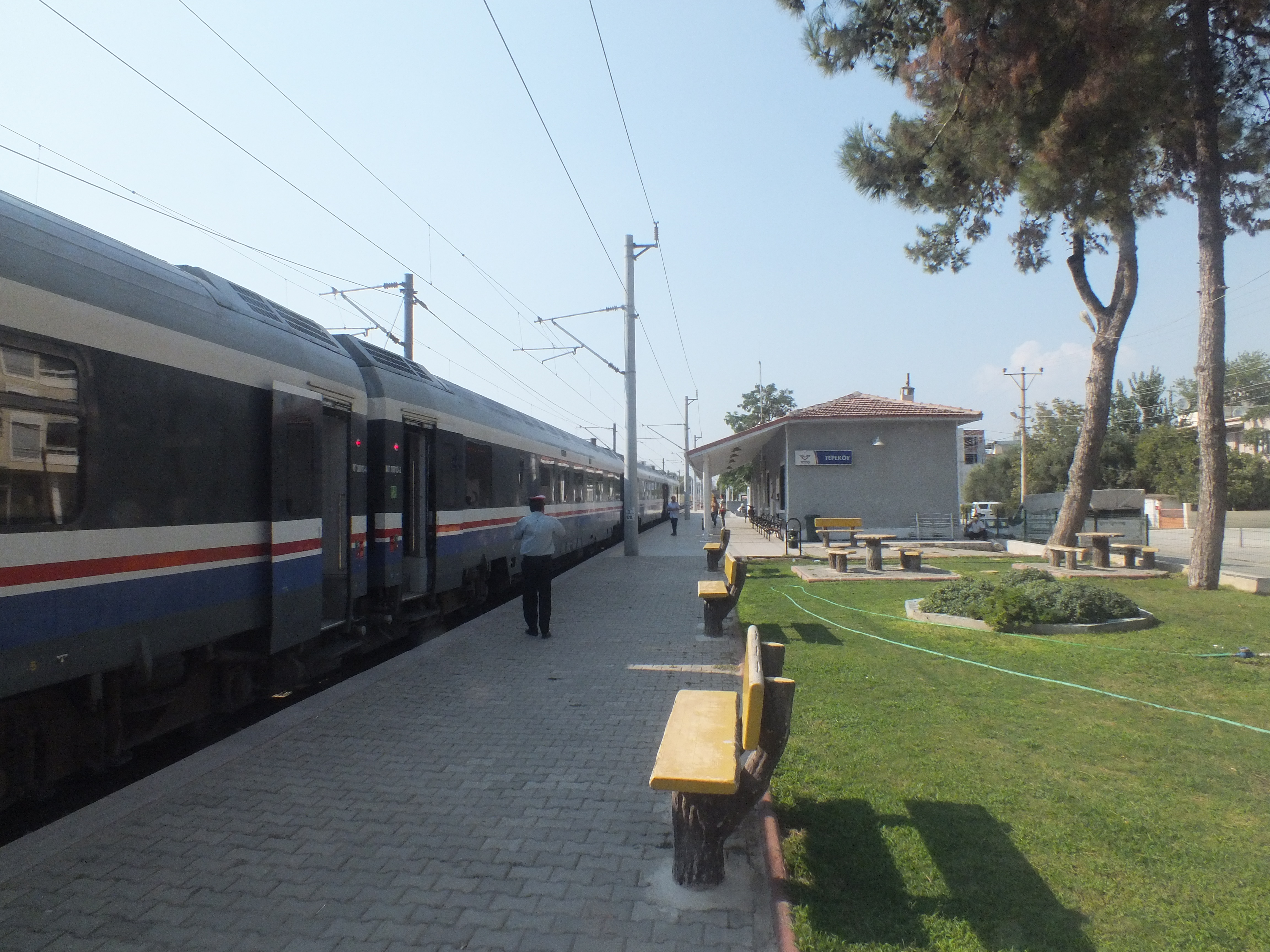 A Denizli bound regional at Tepekoy.